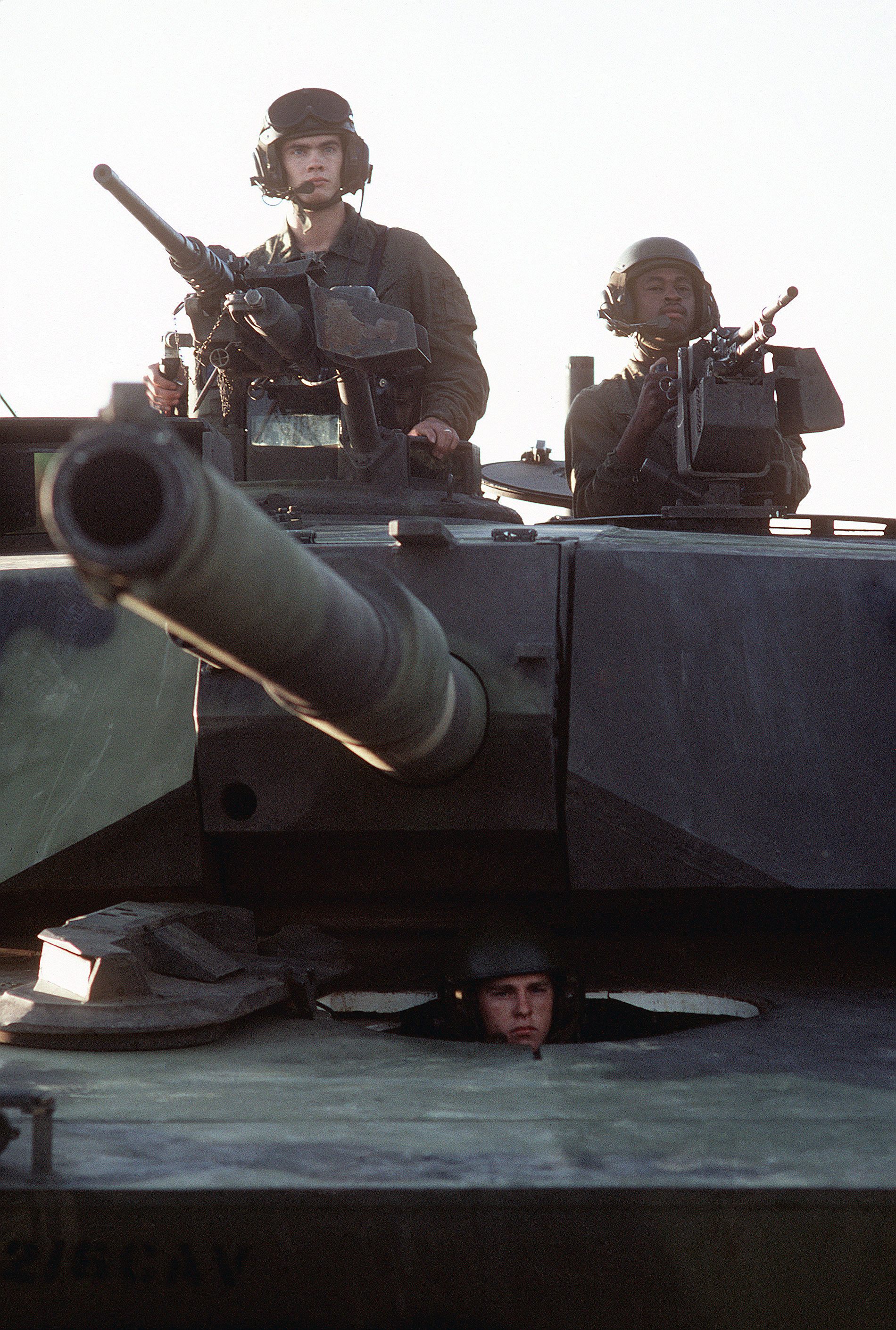 Members of an M1 Abrams main battle tank crew man the tank commander's M2.50-caliber machine gun, left, and the ammunition loader's M240 7.62 mm machine gun. Released to Public Date Shot: 1 Jun 1981